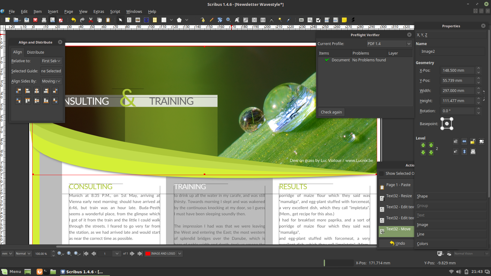 A Screenshot of Scribus 1.4.6 on Linux Mint 18 with Mint-Y-Theme, showing the Newsletter Wavestyle Template, containing the Image Dew on grass by Luc Viatour.